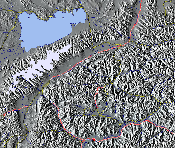 Map of Lhasa Prefecture, Tibet showing Nam Tso